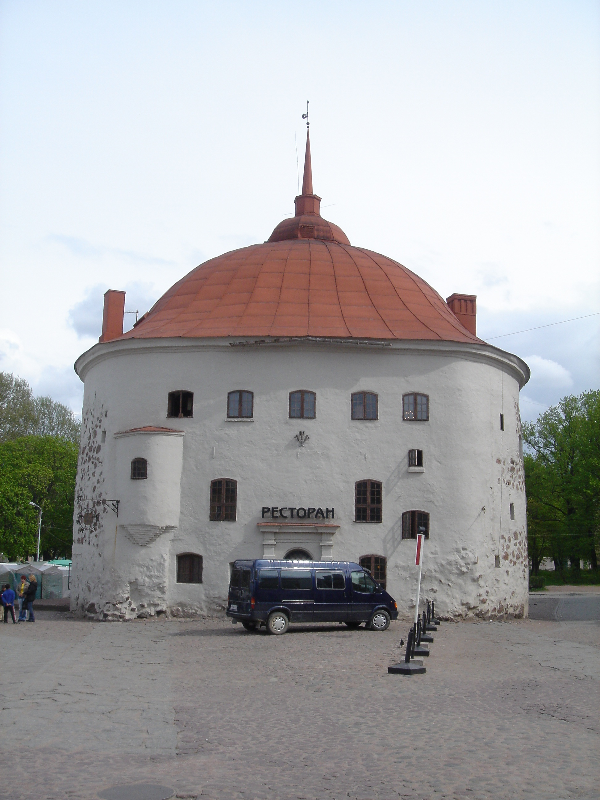 The Round Tower in Vyborg Picture taken by Juho Ahava